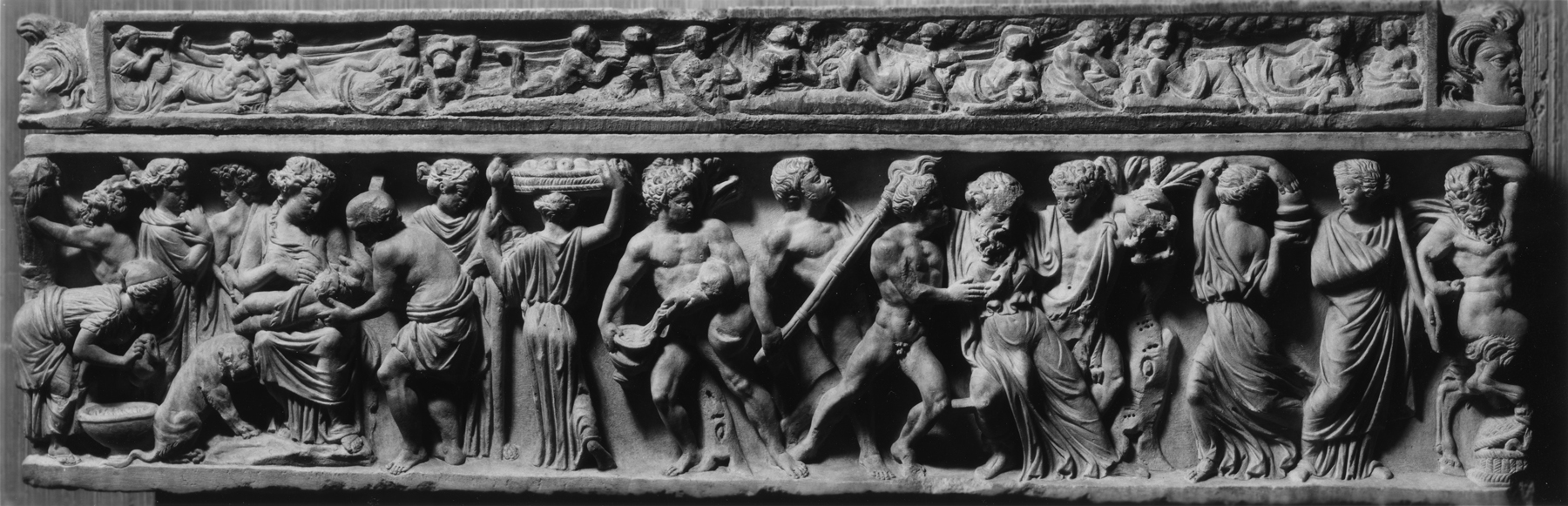 This sarcophagus, also called the "Childhood Sarcophagus," depicts the birth of the god Dionysus (the Roman Bacchus) in exquisitely detailed high relief. At the left, the newborn god is nursed by a nymph and surrounded by Silenus-his future teacher-and other attendants, including one preparing a basin for the child's first bath. A panther cub, the god's favorite animal, is seated on the ground. To the right, satyrs and maenads, including a drunken old man, celebrate the god's birth. On the lid, satyrs and maenads-followers of the wine god-feast at a banquet. On the sides of the lid, Dionysus's panther drinks from an overturned wine vessel. The coffin is small, as if made for a child rather than for an adult.